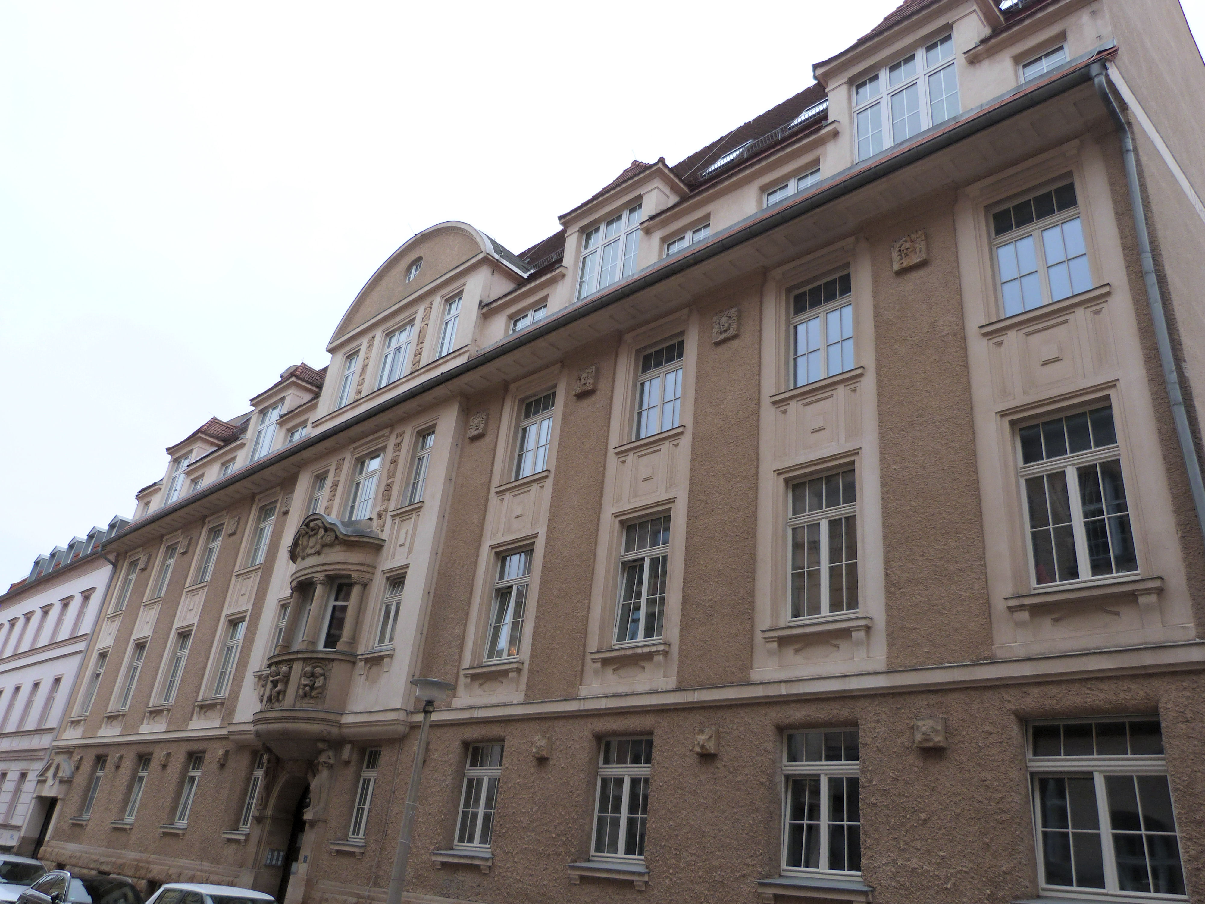 House No. 6 Weidenplan in Halle (Saale)